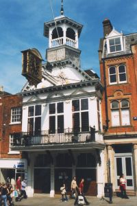 Photo of the Guildhall (town hall) in Guildford - Elizabethan hall with façade and town clock added in 1683.